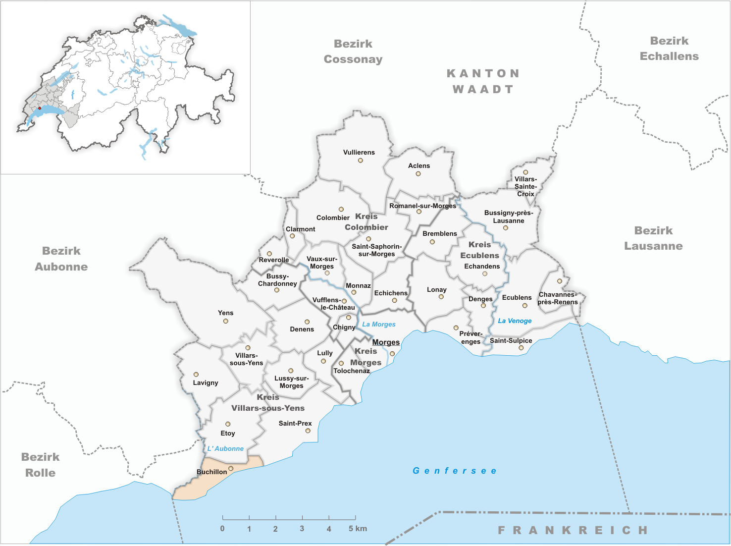 Municipality Buchillon